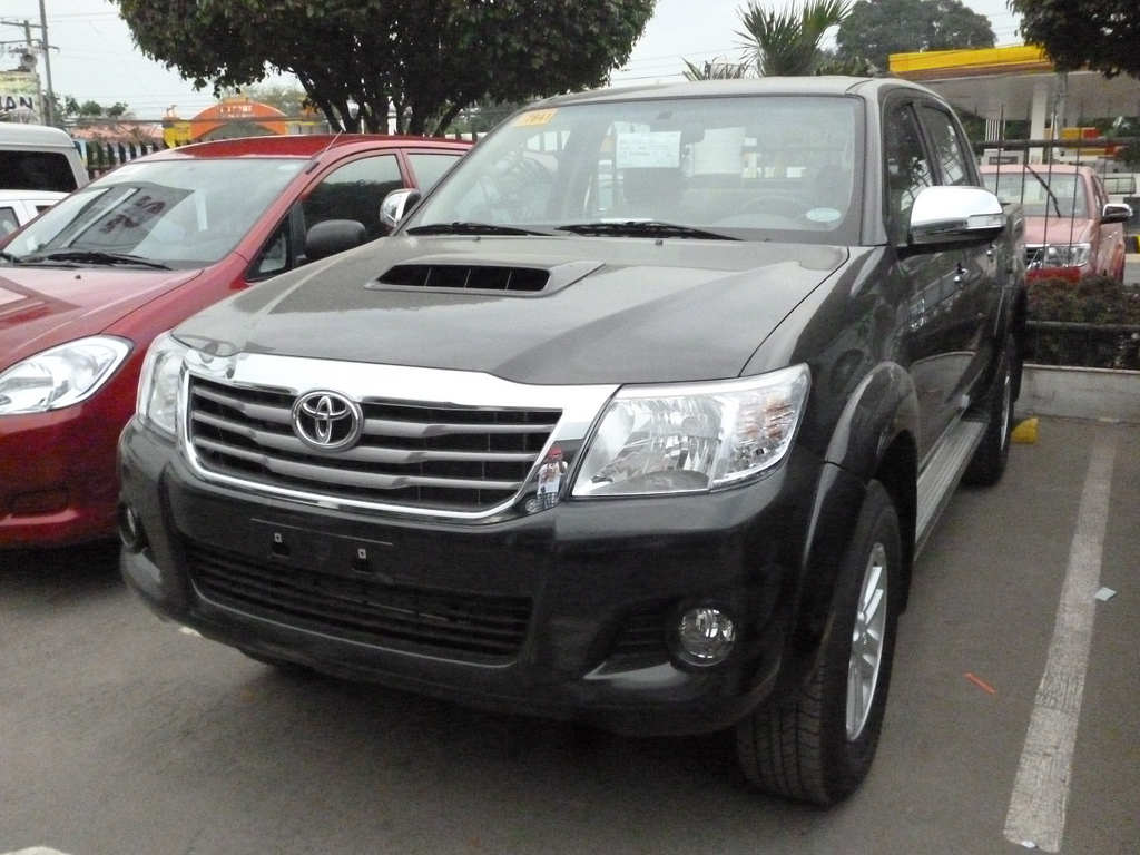 2013 Toyota Hilux 4x4 G Taken at: Toyota Cabanatuan City, Maharlika Highway, Daan Sarile, Cabanatuan City, Nueva Ecija